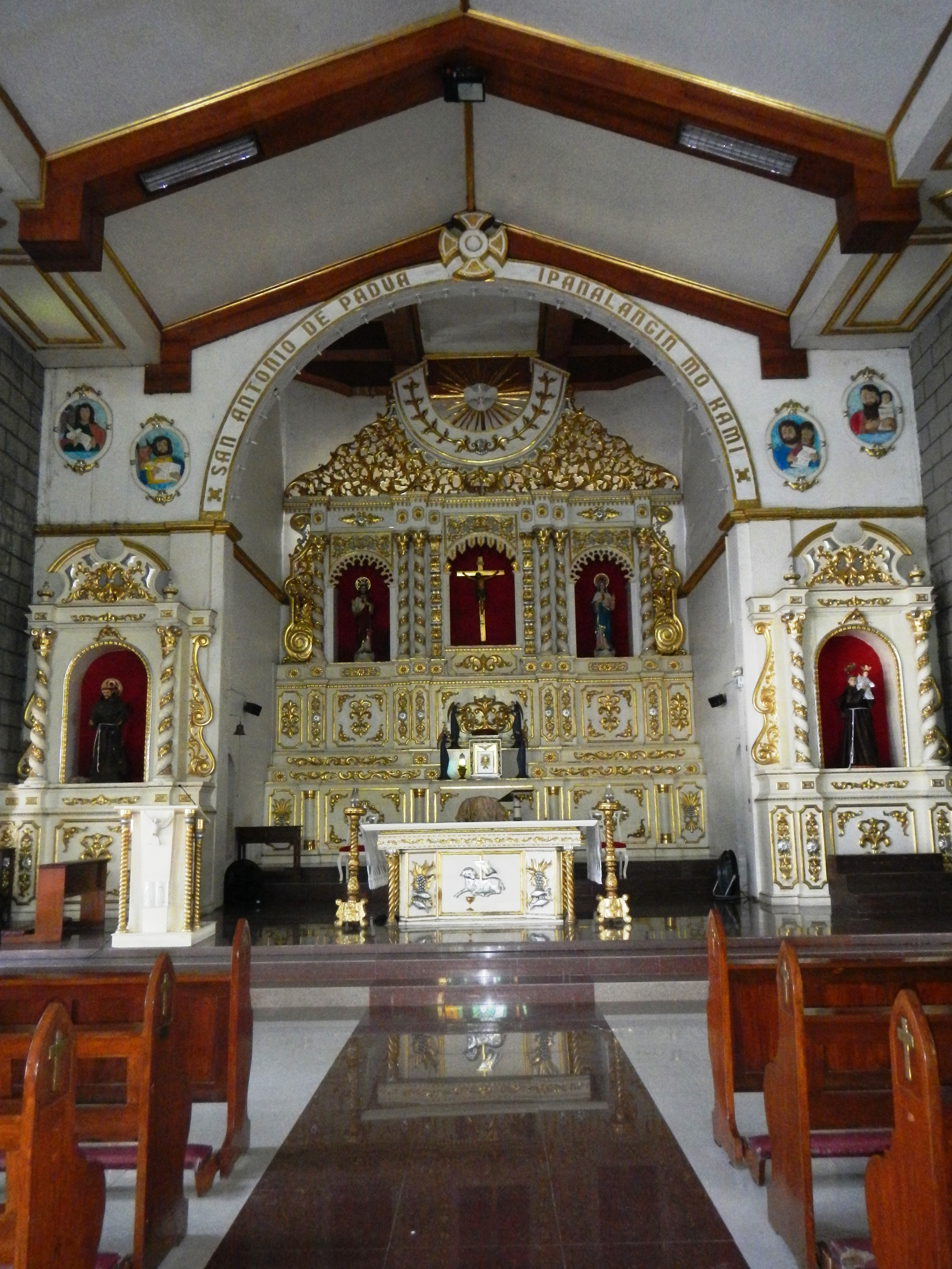 Barangay Iba, Hagonoy, Bulacan Barangay Saint Anthony of Padua Parish Church (Iba, Hagonoy, Bulacan) Hagonoy, Bulacan - Roman Catholic Diocese of Malolos, Vicariate of Saint Anne, beside the Barangay Hall within the Ibanians Park Place.